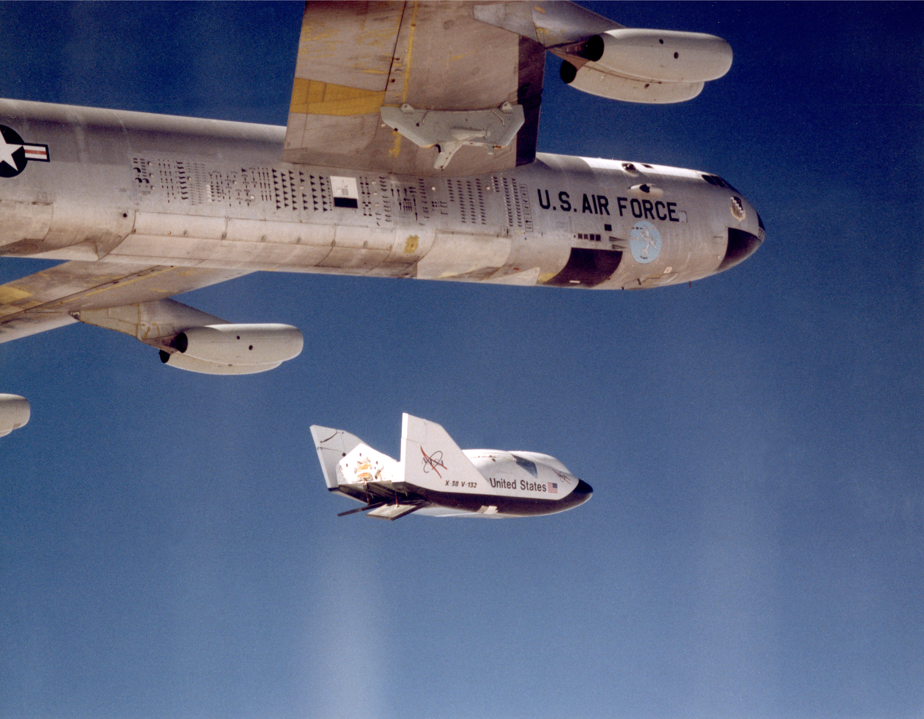 The X-38 research vehicle drops away from NASA's B-52 mothership immediately after being released from the B-52's wing pylon. More than 30 years earlier, this same B-52 launched the original lifting-body vehicles flight tested by NASA and the Air Force at what is now called the Dryden Flight Research Center and the Air Force Flight Test Center. NASA B-52 Tail Number 008 is an air launch carrier aircraft "mothership," as well as a research aircraft platform that has been used on a variety of research projects.